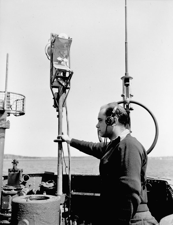 German submarine U-889 surrendered to the Royal Canadian Navy on 13 May 1945 at Shelburne, Nova Scotia, and was taken to Halifax. This image, taken 25 May 1945, shows an unidentified Canadian Navy rating examining U-889's radar detector antenna mast. This consists of two systems, the FuMB-7 Naxos tuned to the 9 cm wavelengths used by the UK's ASV Mk. III and H2S radars, and the FuMB-26 Tunis, tuned to the 3 cm wavelengths used by US radars. In this image the Naxos antenna is facing the camera, it consists of the two leaf-like antennas centered in the parabolic mesh reflector just above the rating's hand. This version of Naxos is known as Fliege, German for "fly", referring to the wing-like shape of the corner-reflector antenna's active elements. The Tunis antenna is above the Naxos, facing away from the camera. It uses a horn antenna, and from this angle looks like a cylinder. The entire mast rotated for detection around the boat, via a mechanical linkage to the radio room below. The system had the serious limitation that the antennas were not waterproof and had to be removed by the deck crew during dives. Behind the rating is a large loop antenna used for direction finding in the VHF band. On the left of the image, the cylindrical mesh grid is the "Bali" antenna used to detect 1.5 meter signals used by earlier Royal Navy radars.